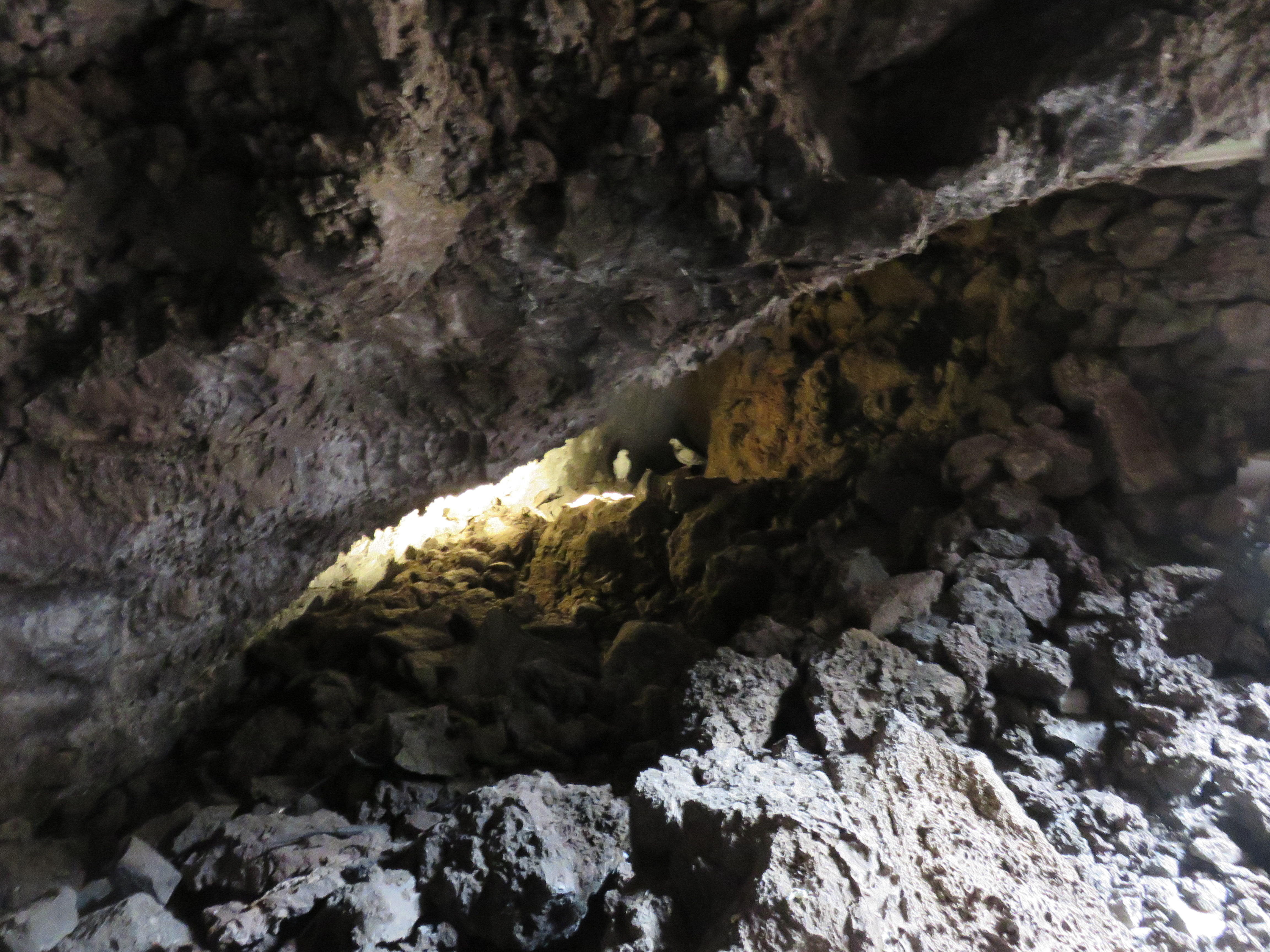 El Vidrio volcanic tube, pigeons in the background